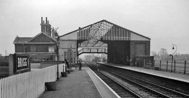 Brigg Station. View eastward, towards Barnetby and Grimsby/Immingham; ex-Great Central Sheffield -Retford - Gainsborough - Barnetby - Immingham/Grimsby secondary main line. The line is quite busy with freight, but the passenger service nowadays is poor - and Brigg is served merely by THREE trains on SATURDAYS only.